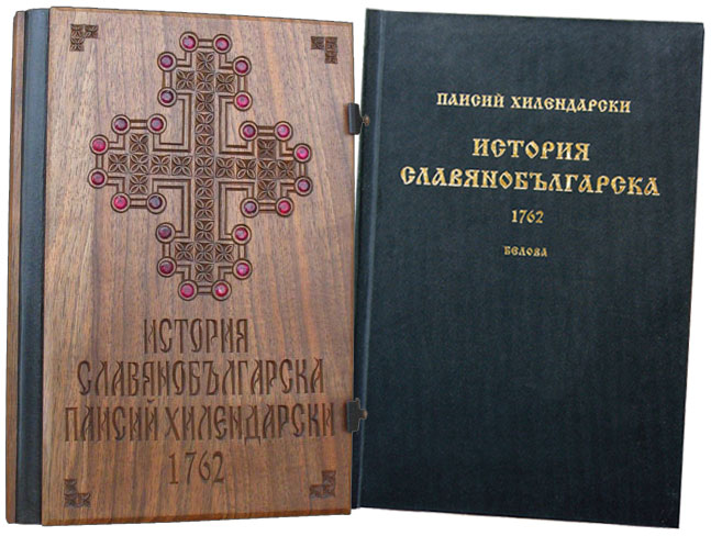 Bulgarian History